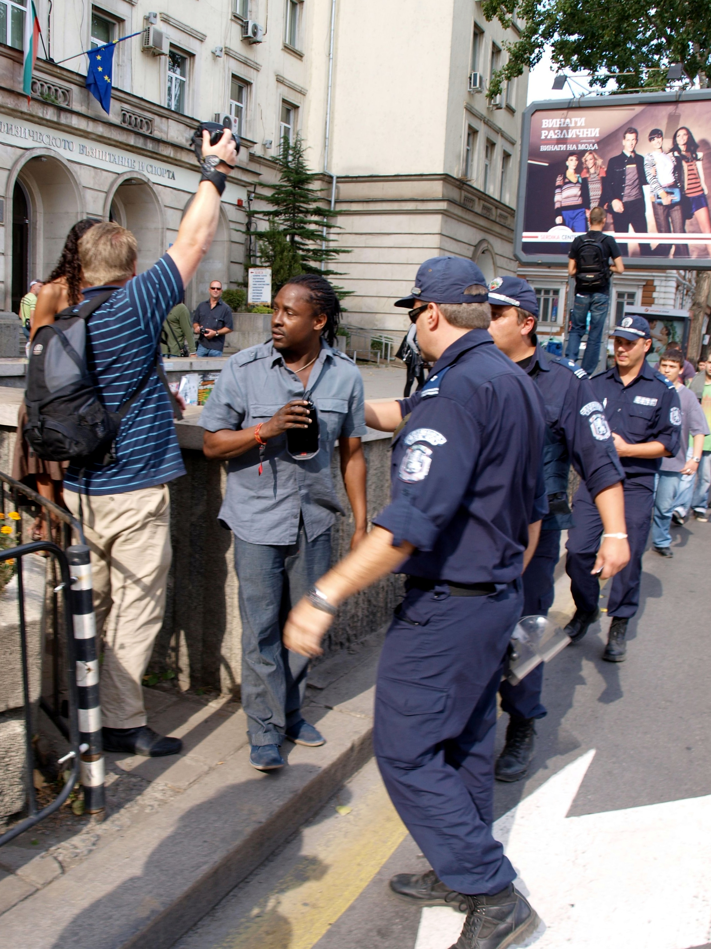 Protest against Roma criminality in Sofia - the capital of Bulgaria. Bulgarian policemen move a dark-skinned hobby photographer away from the route of the procession, to prevent eventual beatening. White photographers shoot undisturbed.